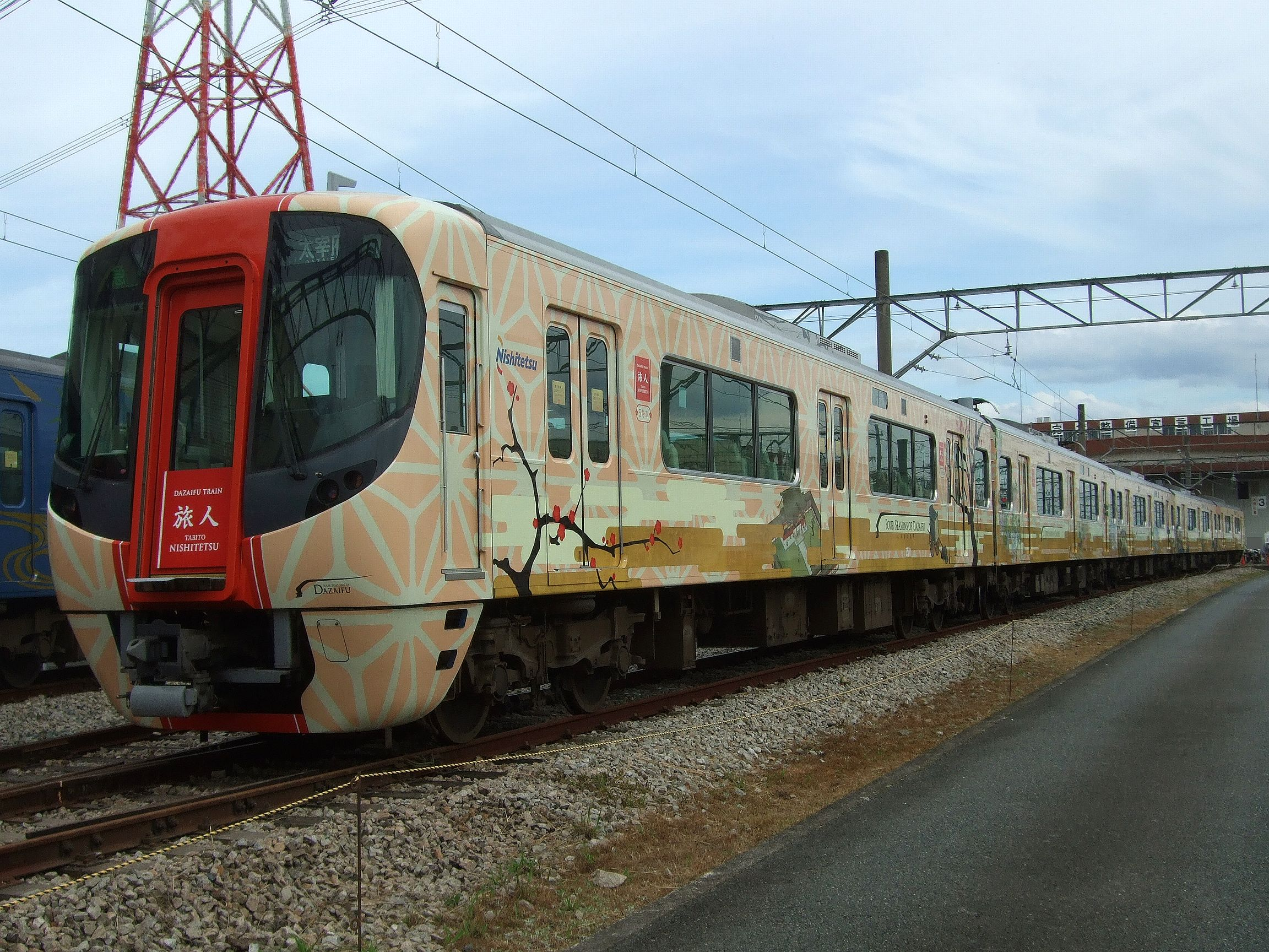 Nishi Nippon Railroad EMU Type3000 "Tabito" / Formation:3010-3310-3410-3610-3510 / Location:Nishitetsu Chikushi Yard, Chikushino City, Fukuoka, Japan.